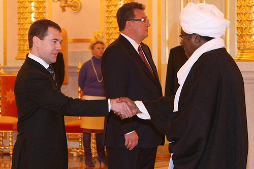 THE KREMLIN, MOSCOW. Presentation ceremony of foreign ambassadors’ letters of credentials. Ambassador of the Republic of Sudan Sirajuddin Hamid Yousuf presents his letter of credentials to the President of Russia.